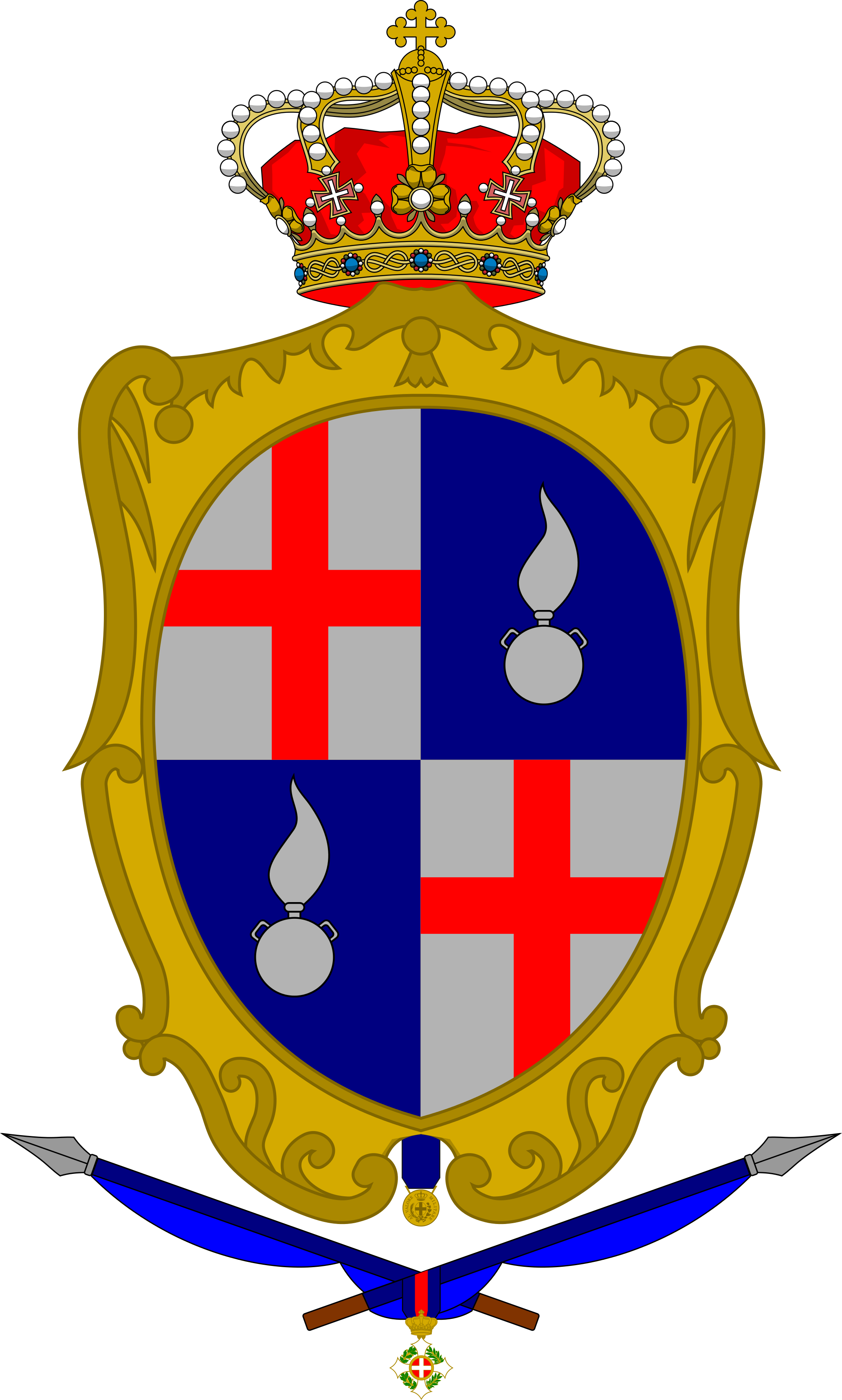 Coat of Arms of the 74th Infantry Regiment "Lombardia", Royal Italian Army, 1939 - - Royal Crown by user User: F l a n k e r, released to public domain (see File:Crown of Savoy.svg)